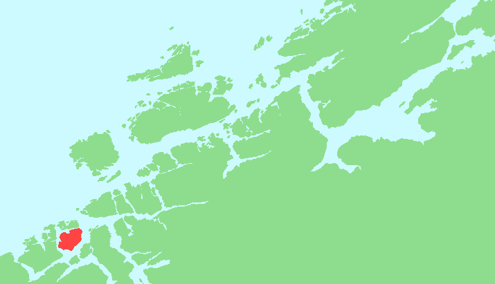 Location of the island of Frei in Nordmøre, Norway